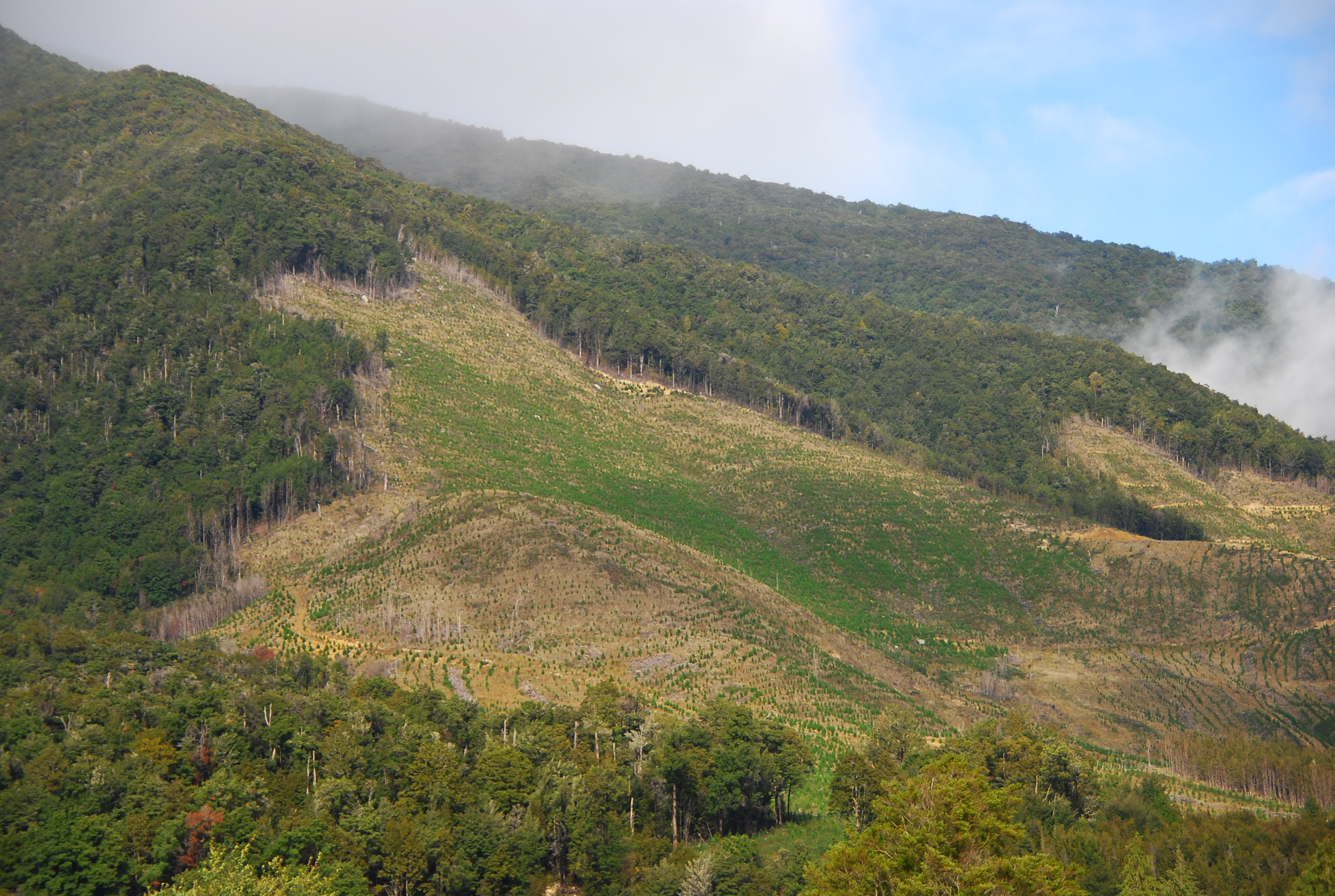 Deforestation in Newzealand (South Island: Tasman, Westcoast)